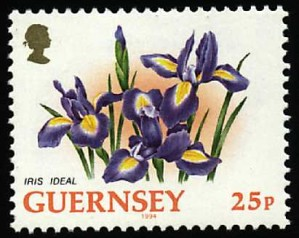 Guernsey Flowers